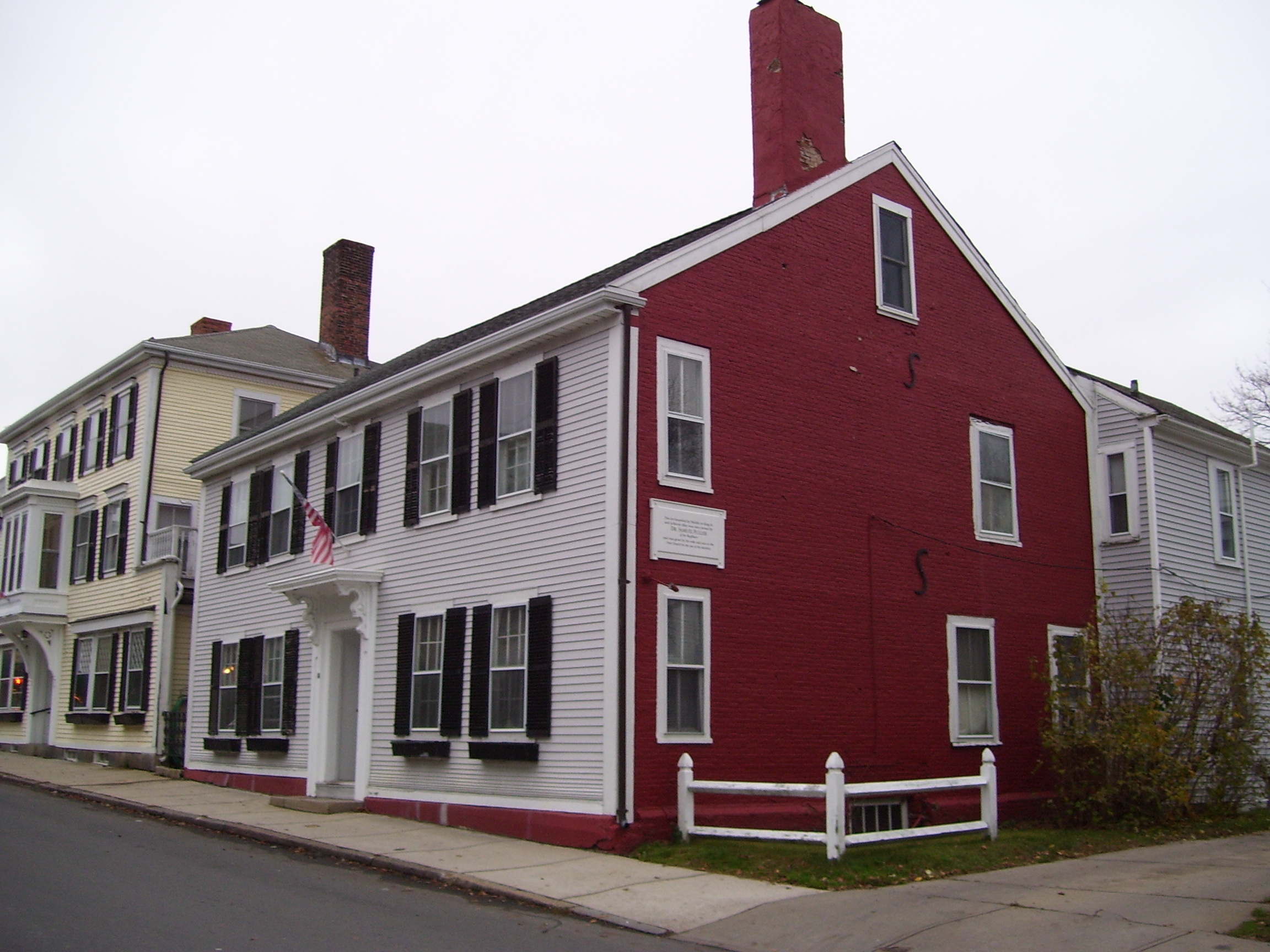 My 2009 photo of the Samuel Fuller home site on Leyden Street in Plymouth, Massachusetts.